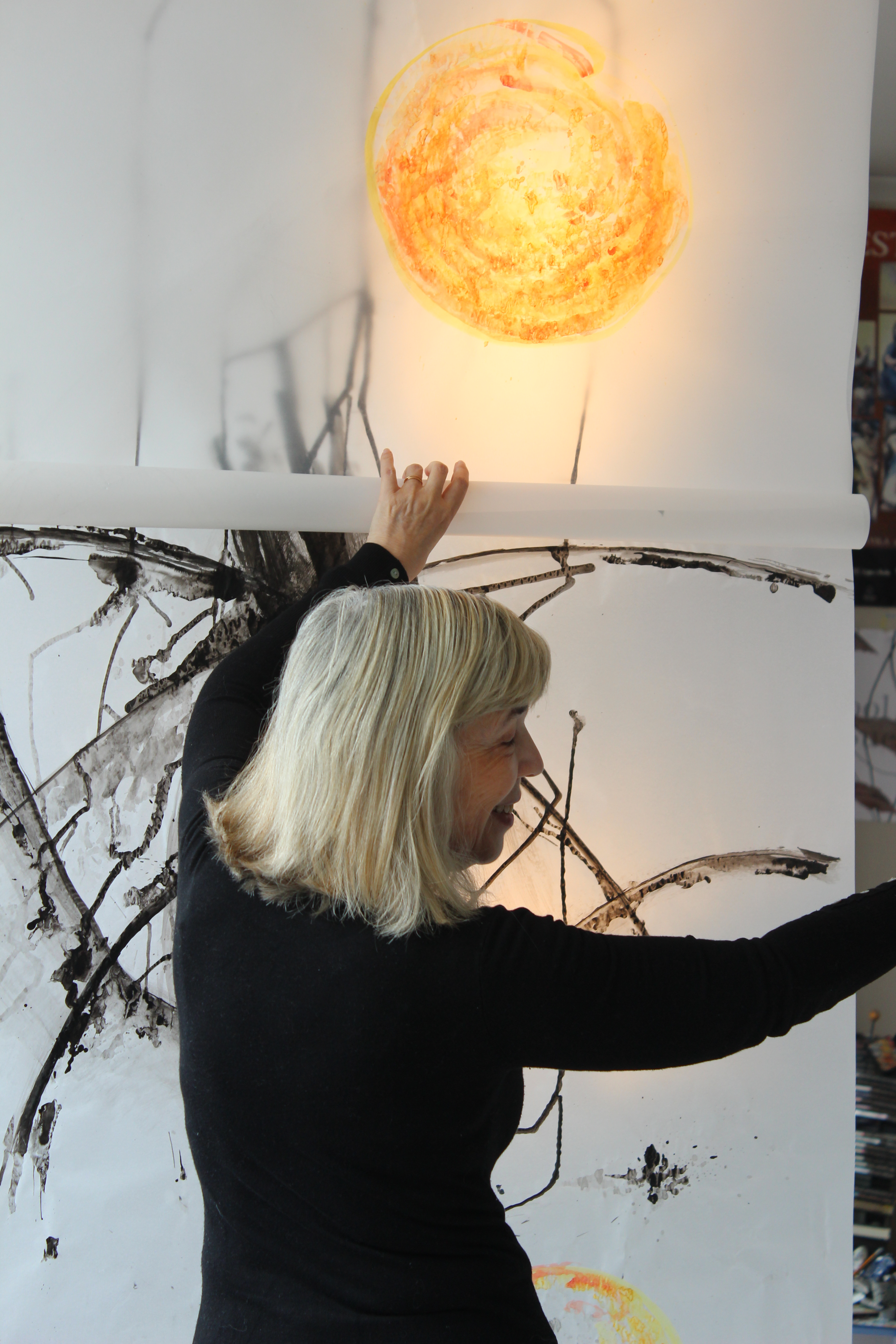 Isabel Saraiva